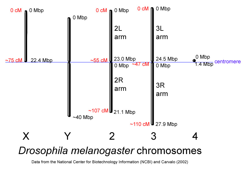 This diagram shows the chromosomes of Drosophila melanogaster approximately to scale. Chromosome sizes were based on basepair lengths given on the NCBI map viewer, and A. B. Carvalho, 2002. Curr. Op. Genet. & Devel. 12:664-668. Centimorgan distances were derived from selected loci listed in the NCBI website.